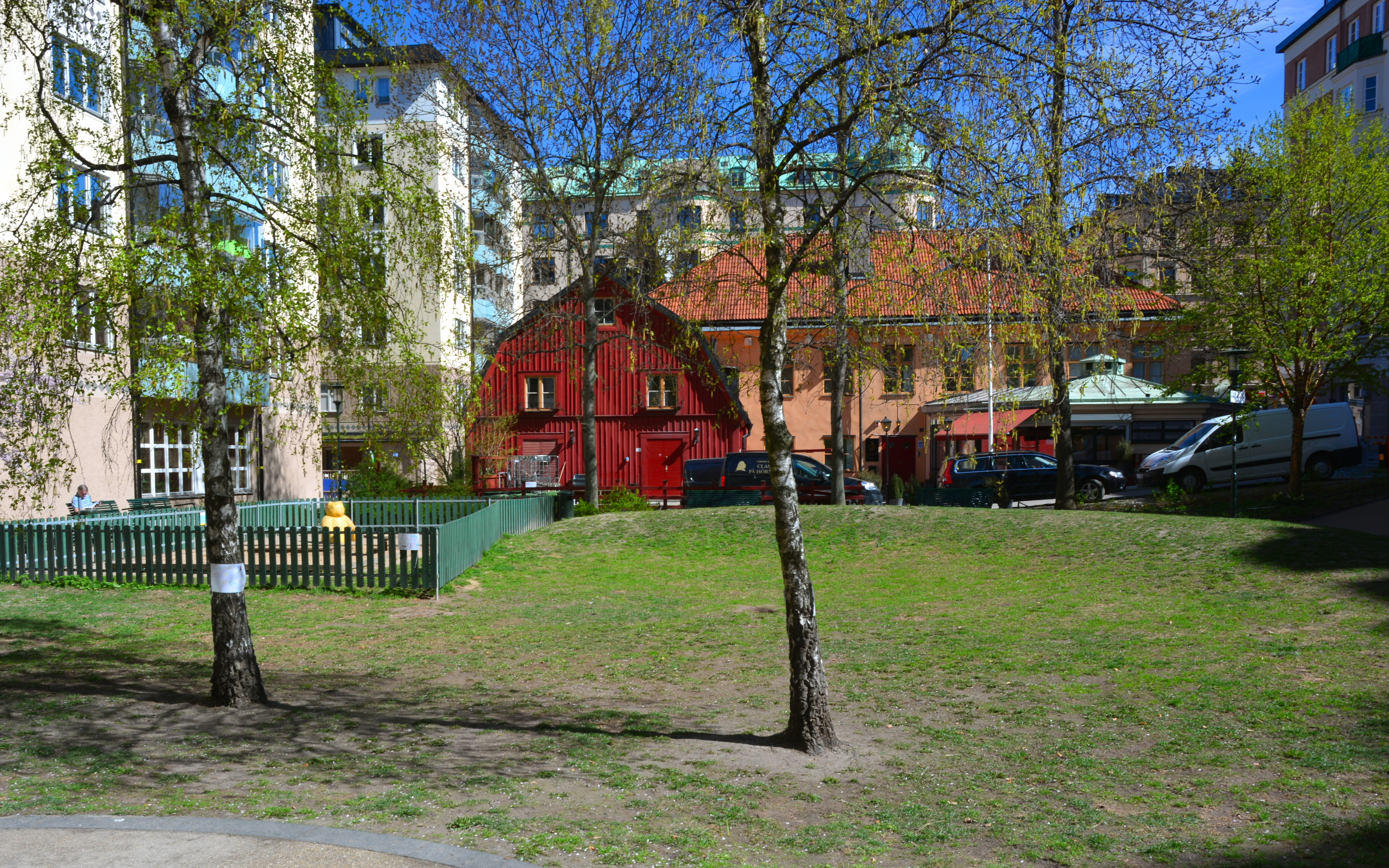 Monica Zetterlunds park in Vasastan, Stockholm